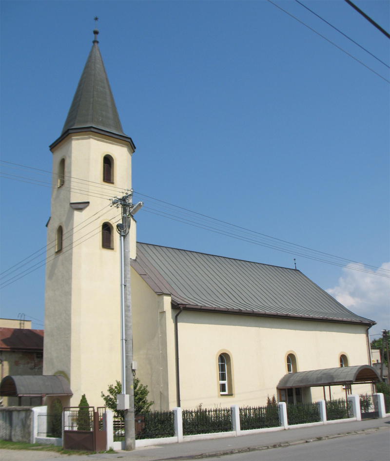 Ref. Church of Čaňa